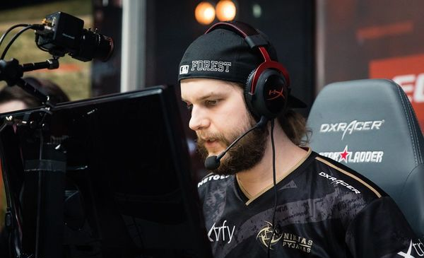 F0rest DXRacer